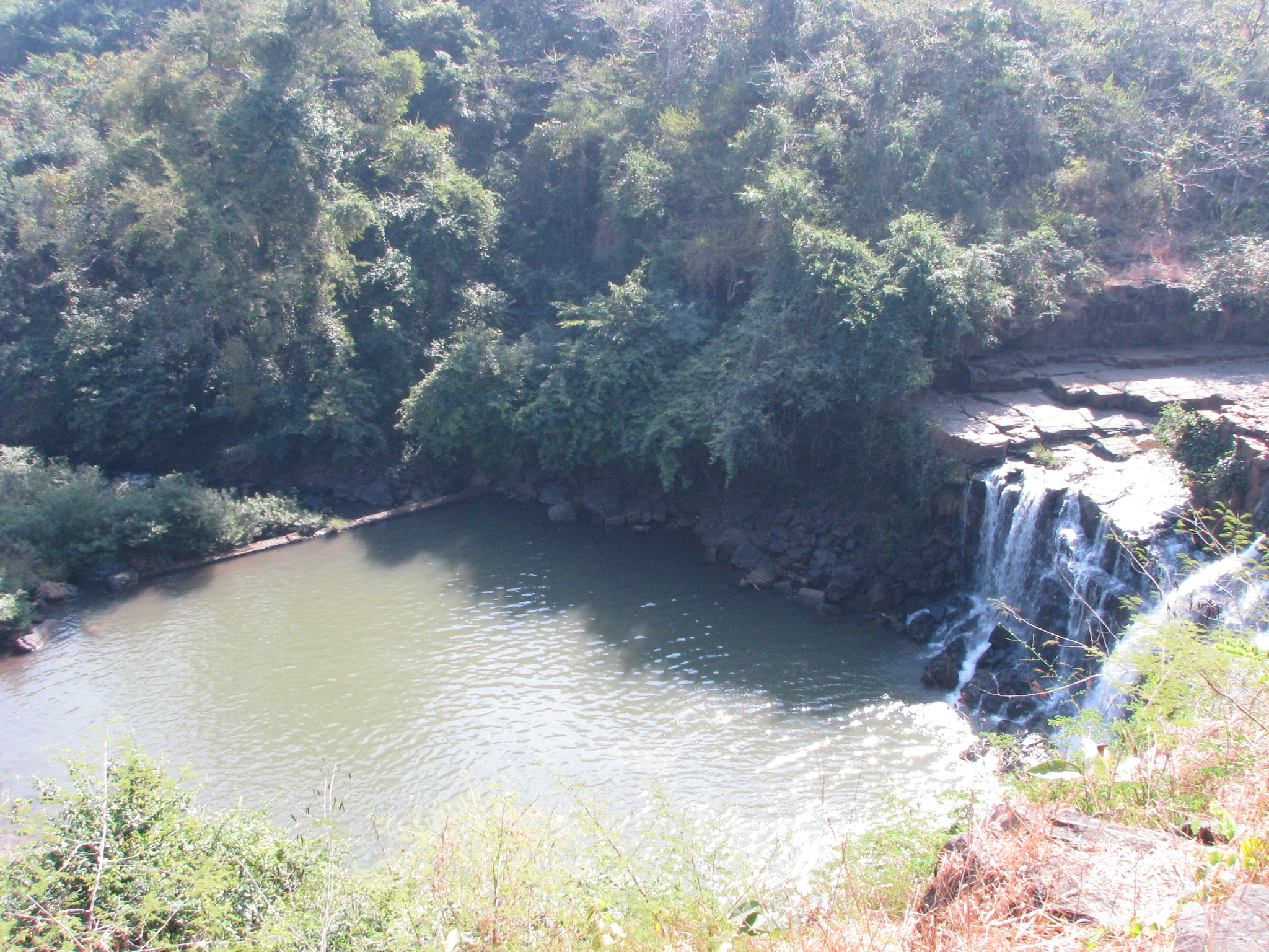 Napne waterfall near Vaibhavwadi, Sindhudurga District, Maharashtra, India